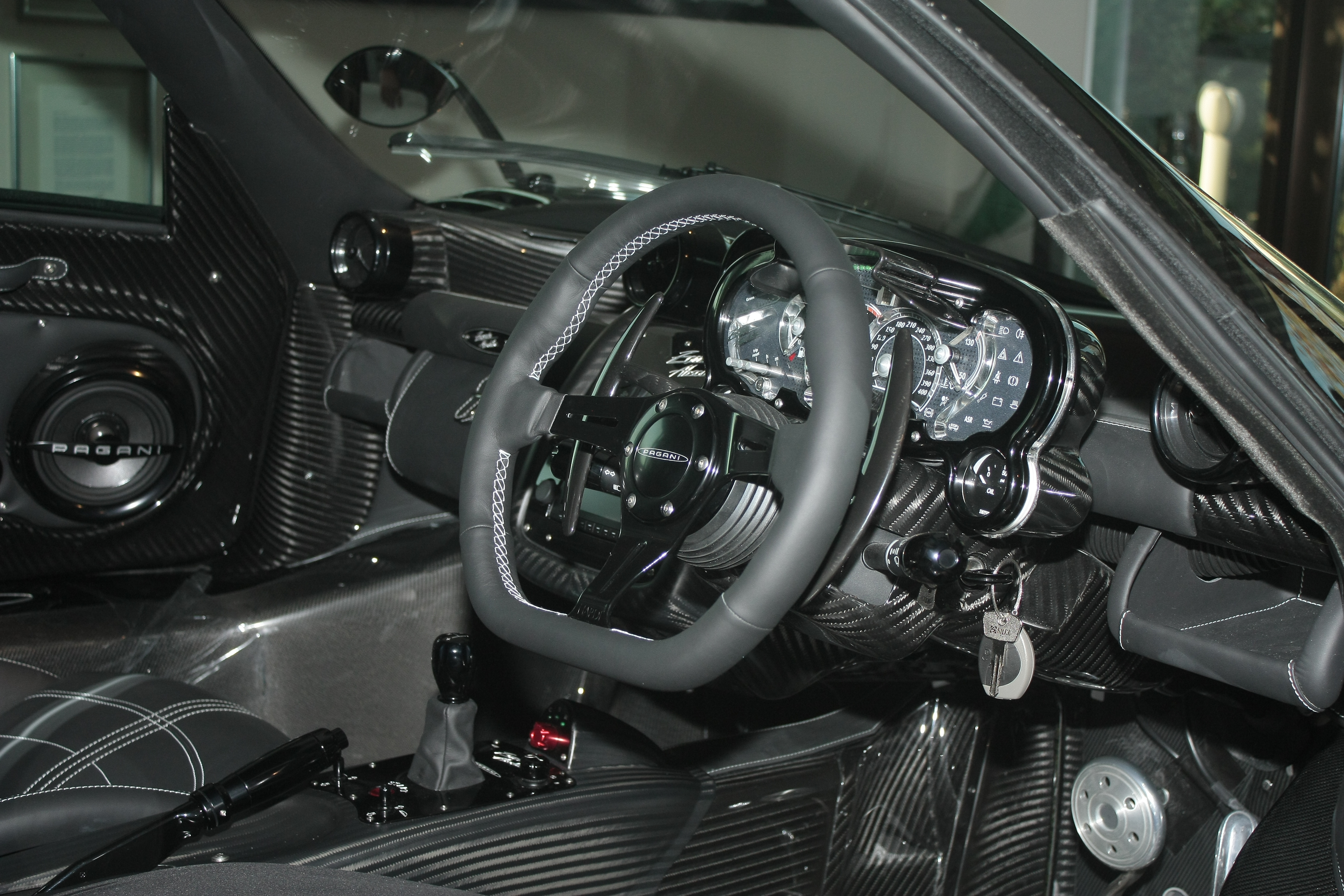 This is a picture of the interior of the one-off Pagani Zonda Absolute.